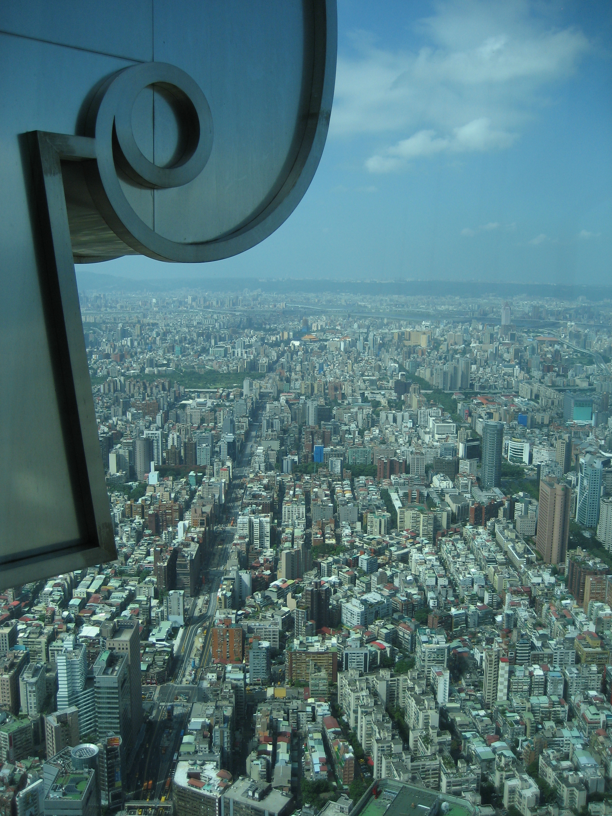 Taipei city views from the Taipei 101.